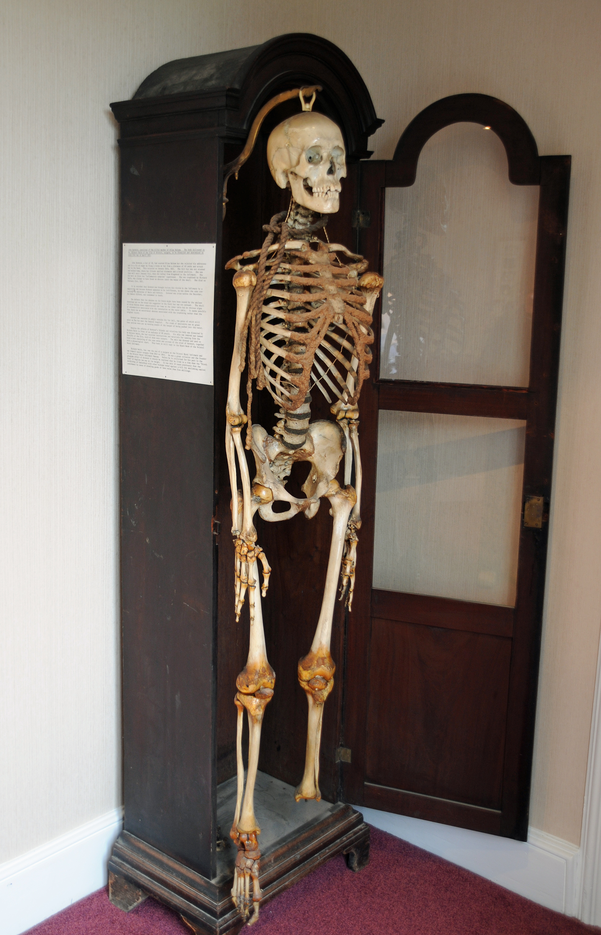 John Horwood (1803–1821) was a miner's son convicted of murder in Bristol, England, and executed 13 April 1821. After his death, he was dissected by Dr Richard Smith. Smith kept the skeleton at his home until his death, when it was passed to the Bristol Royal Infirmary and later to Bristol University. His skeleton was retained, and most recently was kept hanging in a cupboard at Bristol University with the noose still around its neck. Horwood's skeleton was eventually buried alongside his father on 13 April 2011 at 1.30 pm at Christchurch, Hanham, exactly 190 years to the hour after he was hanged. The funeral was arranged by Mary Halliwell, the great-great-great-granddaughter of Horwood's brother. The coffin was draped in velvet and carried on a wheeled bier in the manner of elegant funerals of the period of his death.